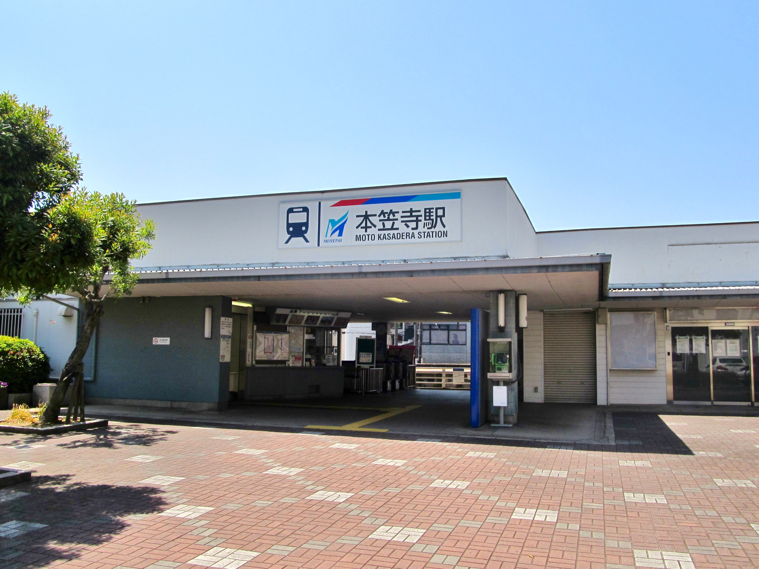 Nagoya Railroad Nagoya Main Line Moto Kasadera Station East Gate